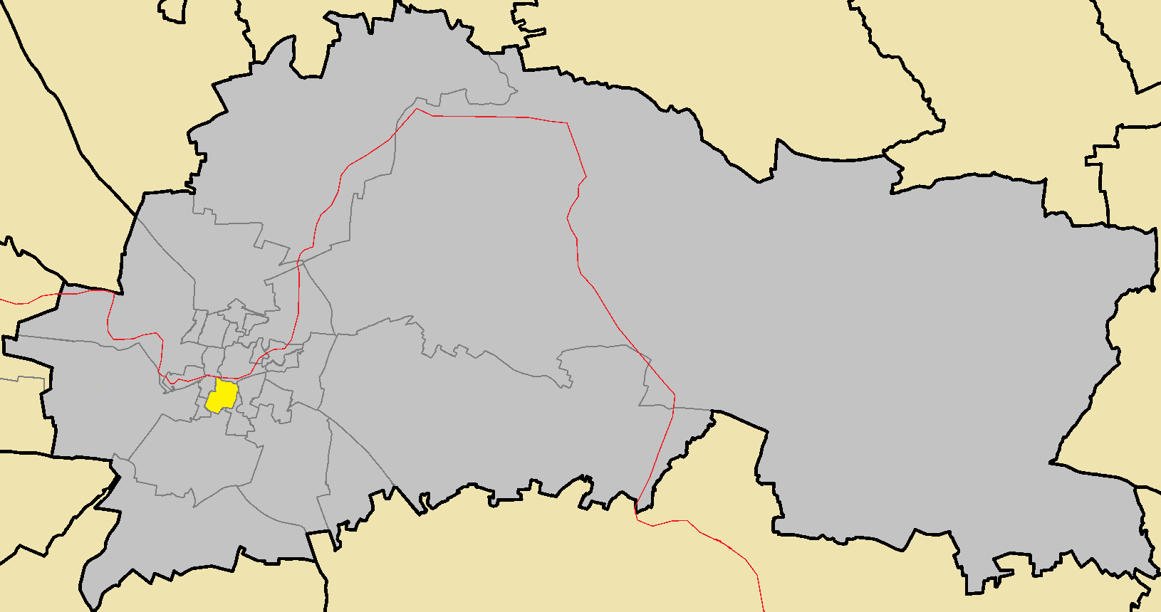 Faneromeni in Nicosia Municipality.